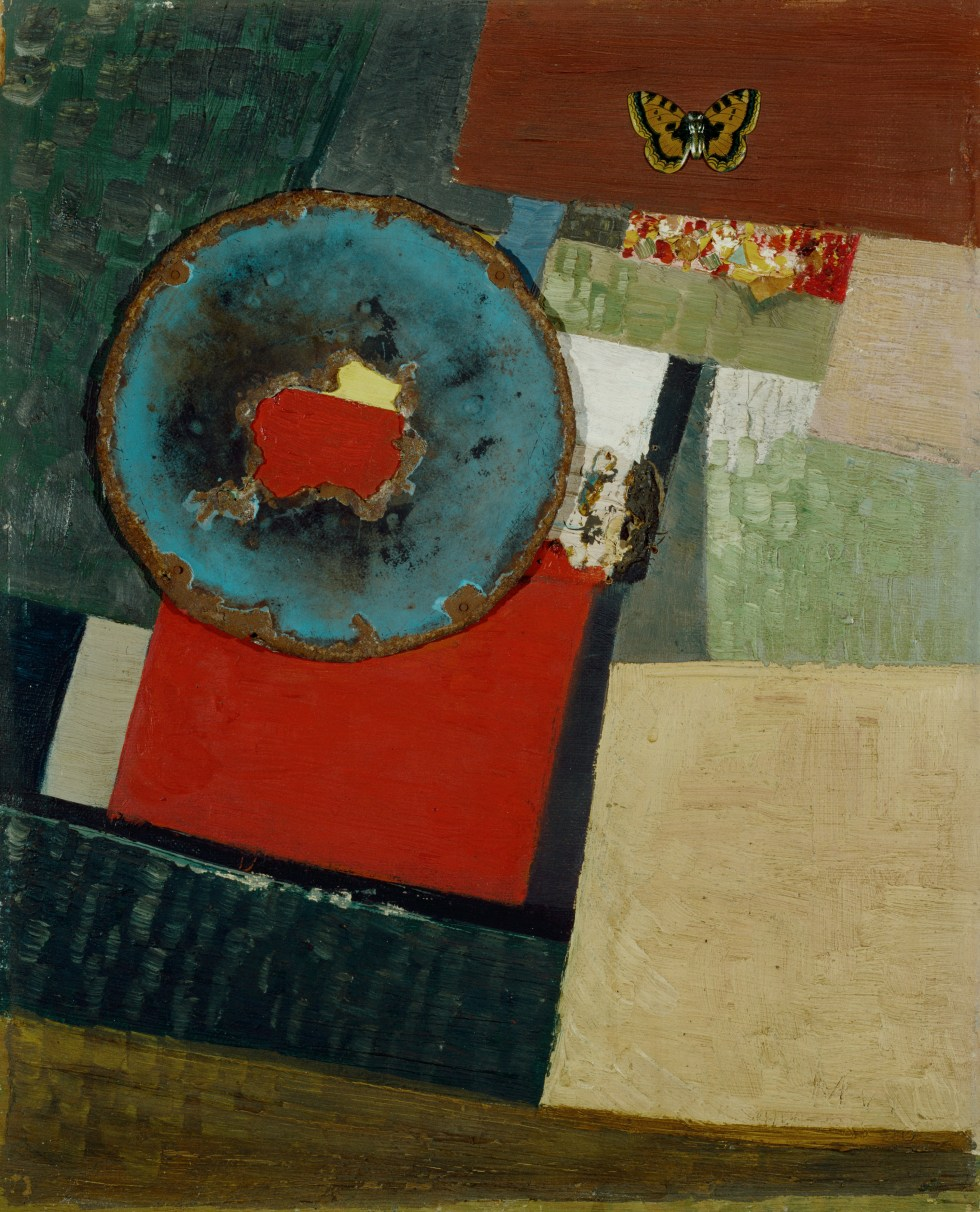 Maraak, Variation I by Kurt Schwitters, collage, 18 1/8 x 14 9/16 inches (46 x 37 cm), Peggy Guggenheim Collection, Venice